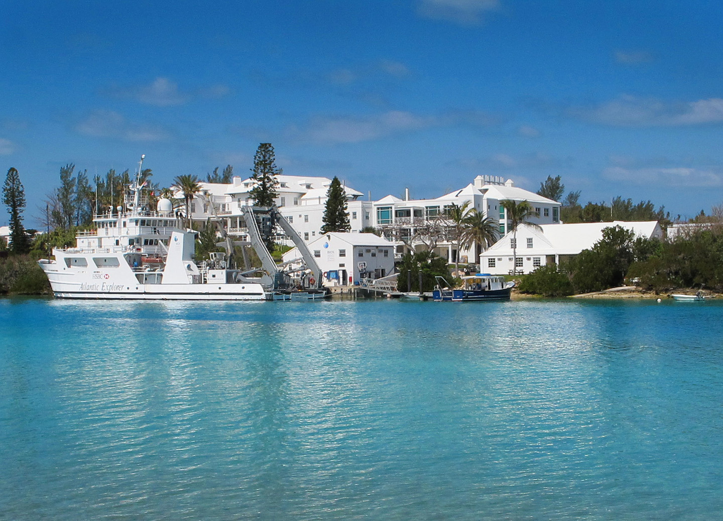 Photo of BIOS and the R/V Atlantic Explorer